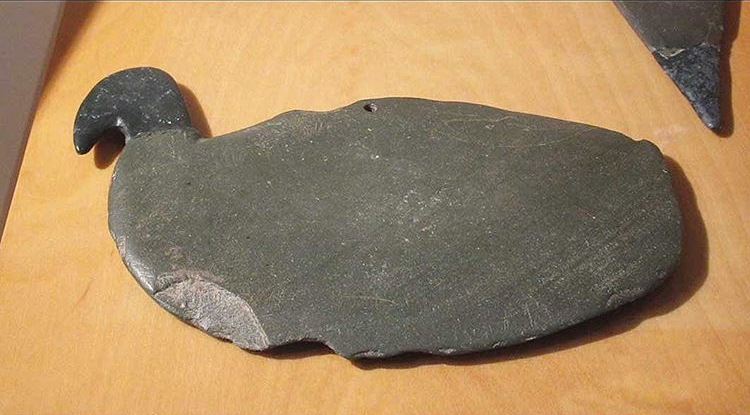 Palette Naqada I-II Palettes for blending cosmetics with geometrical and animal forms were widely used during the Predynastic Period. @Museu_Egipci Barcelona #Predynastic